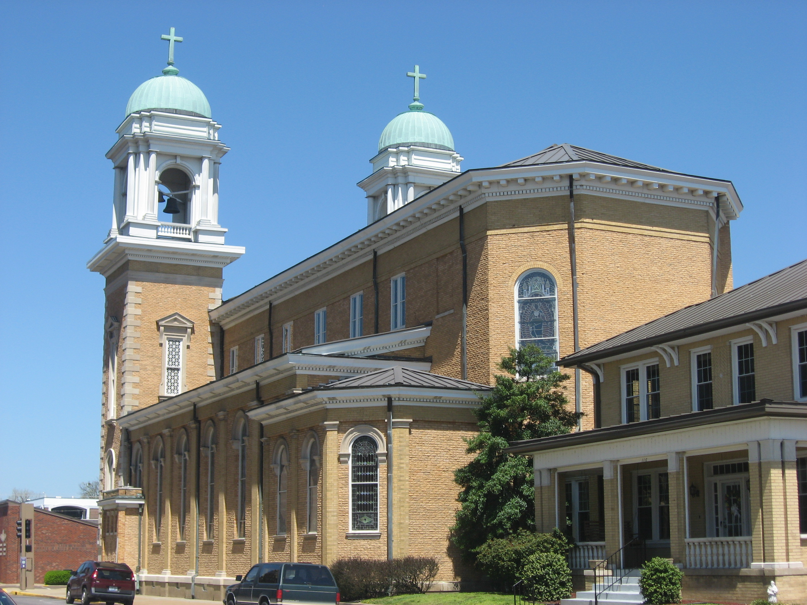 Rear and western side of St. Francis de Sales Catholic Church, located at 116 S. Sixth Street in downtown Paducah, Kentucky, United States. Note the adjacent rectory on the right edge. Built in 1899, it is listed on the National Register of Historic Places, and both the church and the rectory (built 1927) are part of a Register-listed historic district, the Paducah Downtown Commercial District.